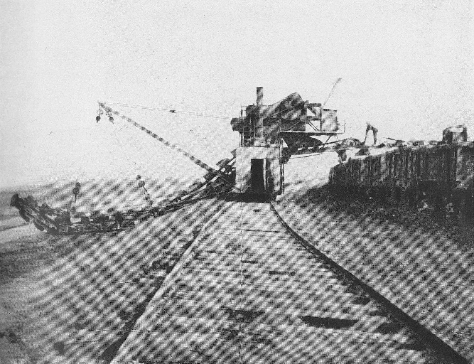 The excavator at work, digging a channel for drainage